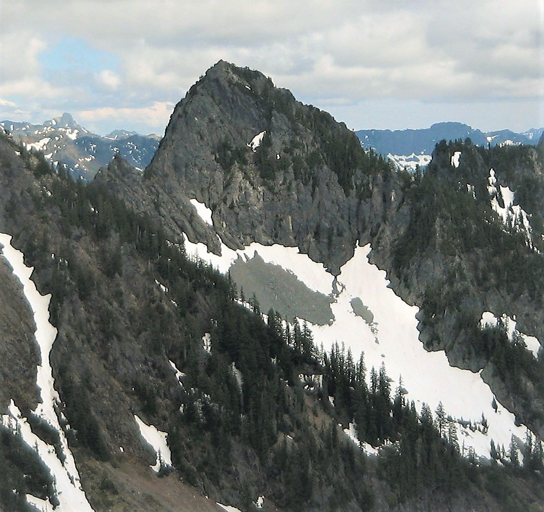 Bryant Peak seen from Kaleetan Peak